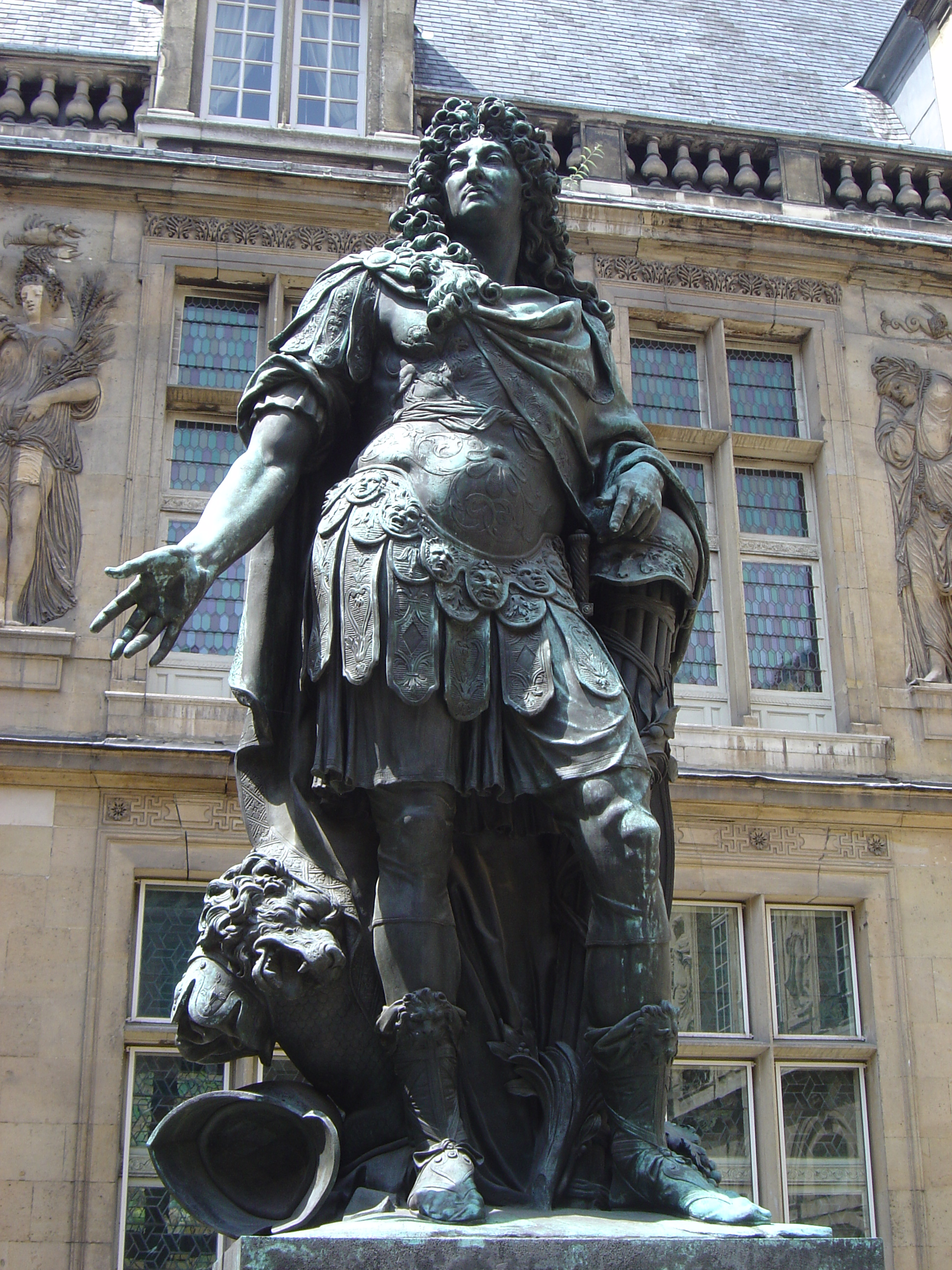 Louis XIV of France by Antoine Coysevox, statue in the courtyard of the Hôtel Le Pelletier de Saint-Fargeau (now used by the Musée Carnavalet) 2005/6/11